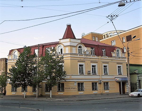 Russian scientific and cultural center in Kiev